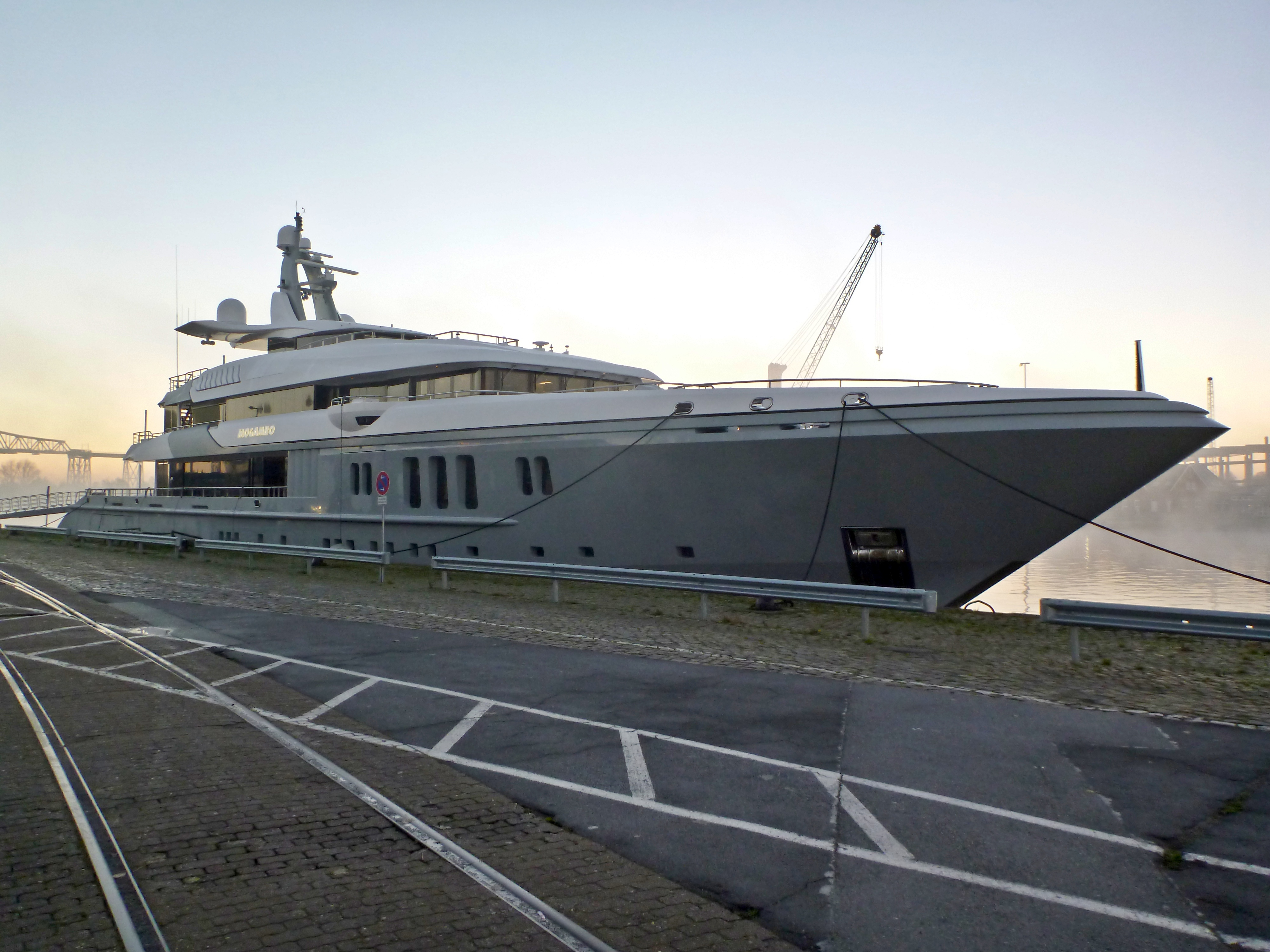 M/Y Mogambo build on Nobiskrug Werft in Rendsburg 2012, at Kreishafen in Rendsburg